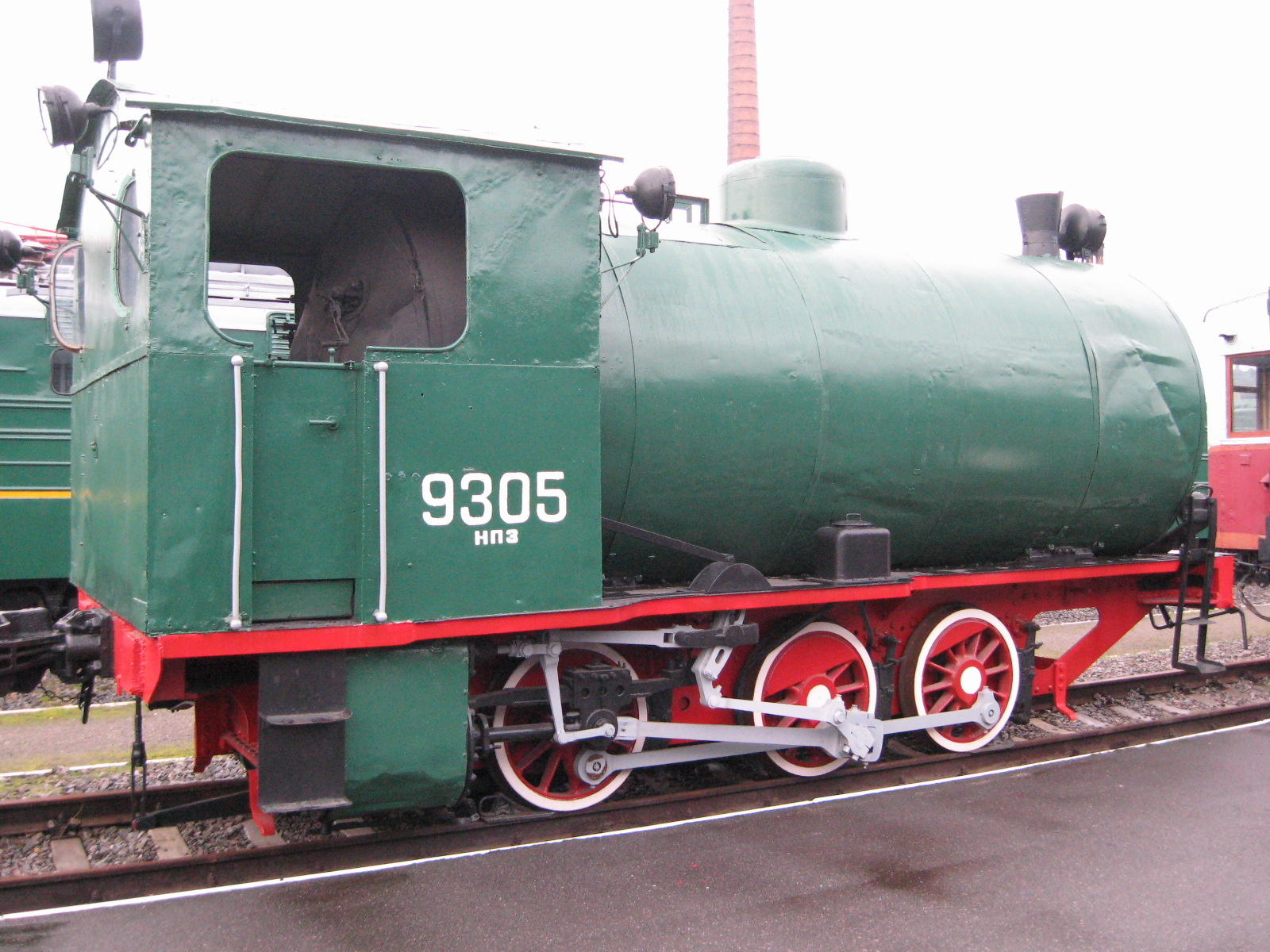 Industrial fireless steam locomotive No.9305 Weight:empty36 t.in working order90 t.Maximum steam pressure in boiler25 atm Built by Schwartzkopf in Germany for the USSR in 1928. It worked at the Tuapse oil refinery. It arrived at the museum in 1993.